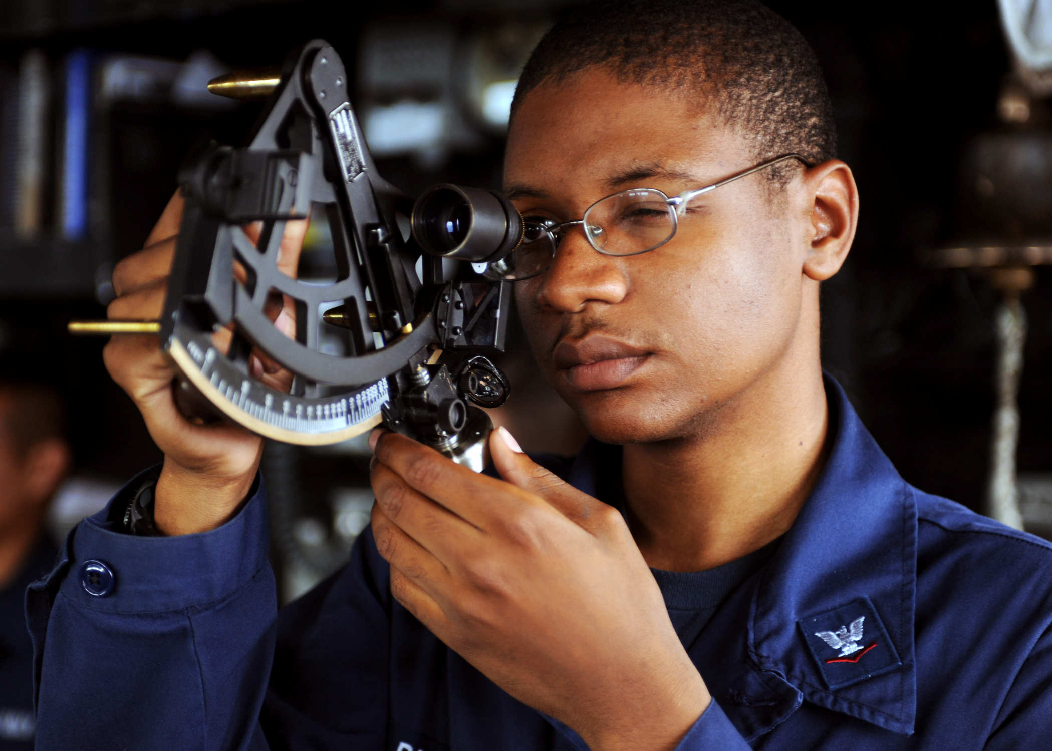 GULF OF OMAN (May 5, 2011) Quartermaster 3rd Class Jaren Briggs uses a statometer to measure range during an underway replenishment aboard the guided-missile cruiser USS Leyte Gulf (CG 55). Leyte Gulf is deployed in the U.S. 5th Fleet area of responsibility to conduct maritime security operations. (U.S. Navy photo by Mass Communication Specialist 3rd Class Robert Guerra/Released)